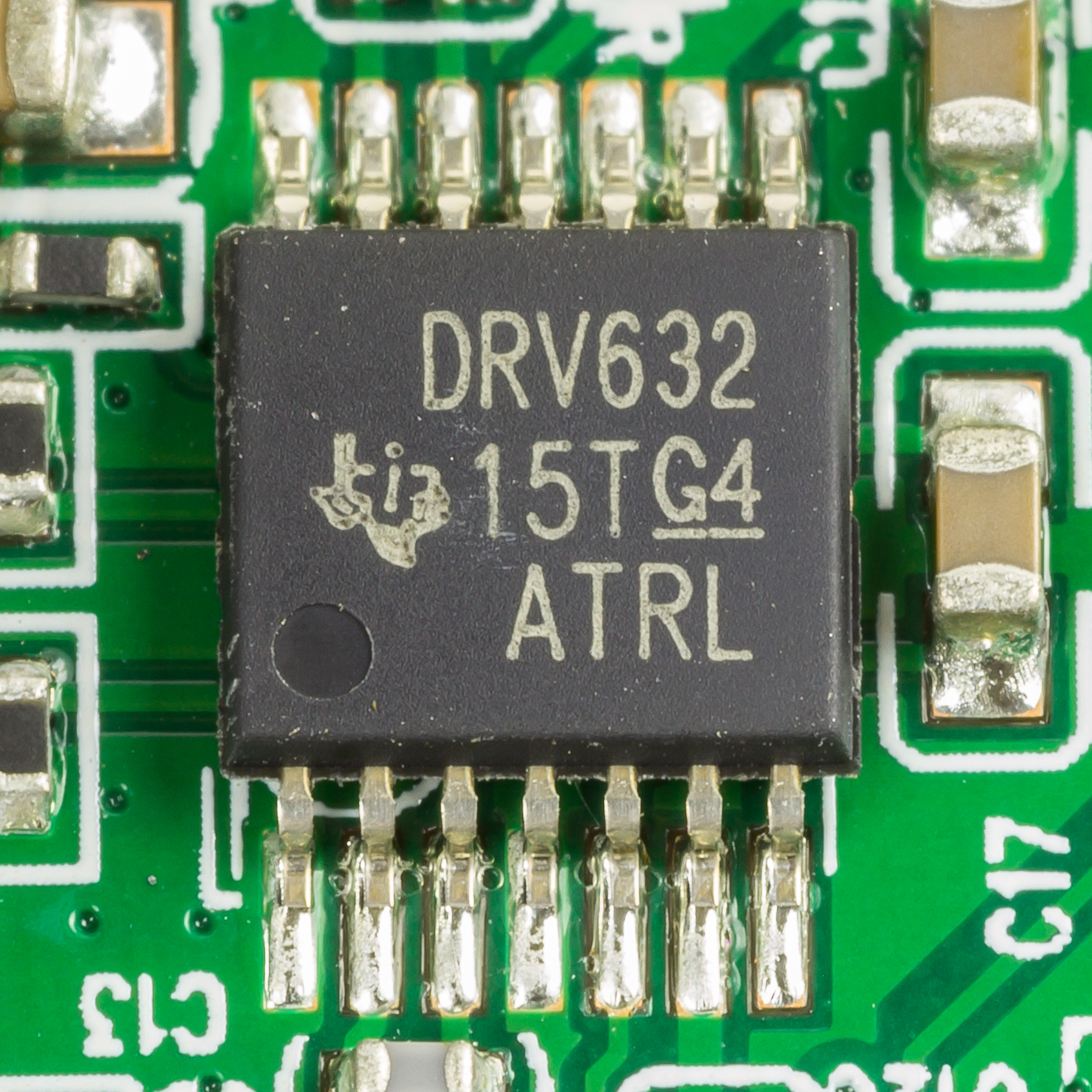 Philips BDP3280/12 - Texas Instruments DRV632 - DRV632 DirectPath, 2-VRMS Audio Line Driver with Adjustable Gain. Package: TSSOP (14)